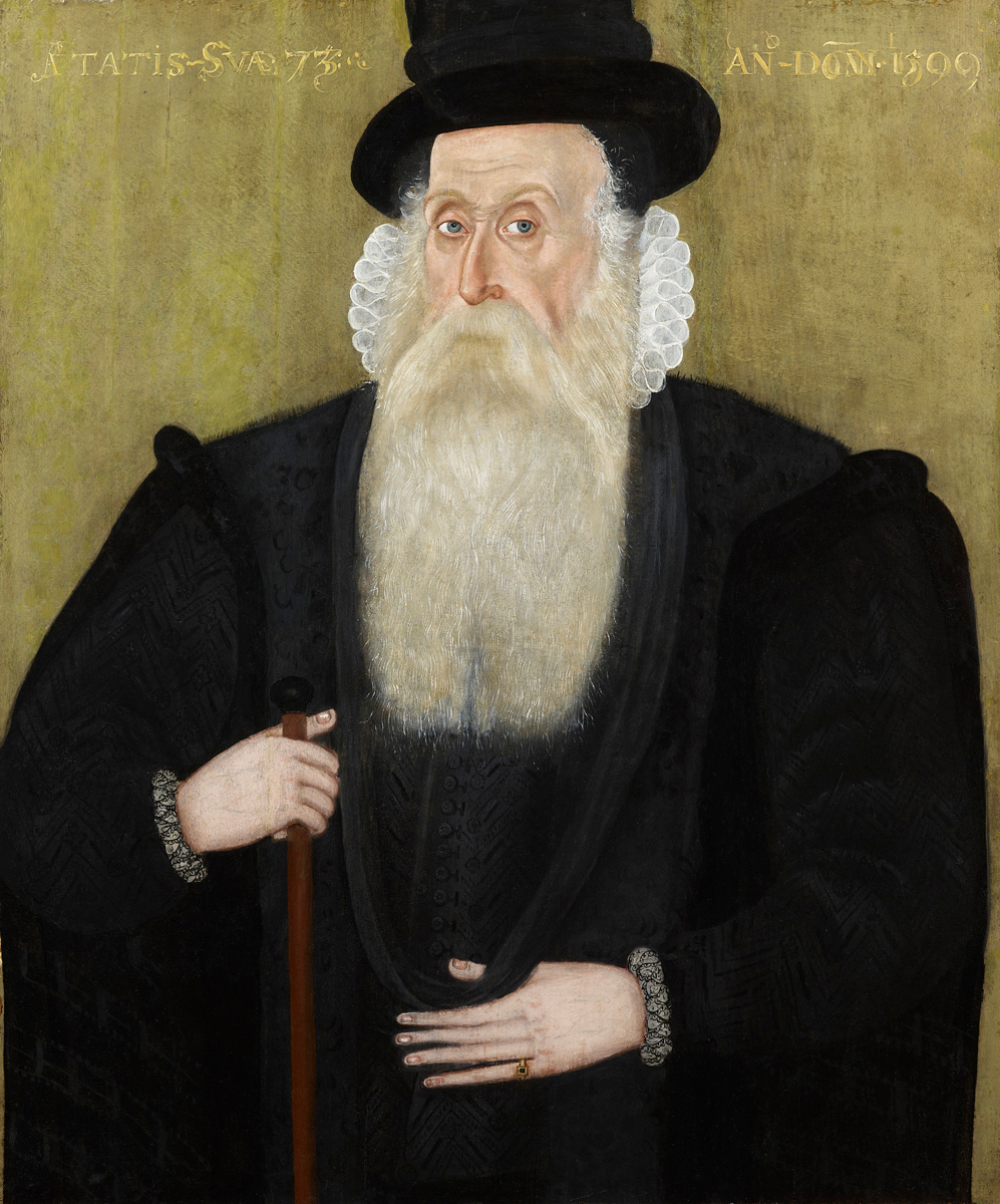 portrait of John Byron, d. 1600